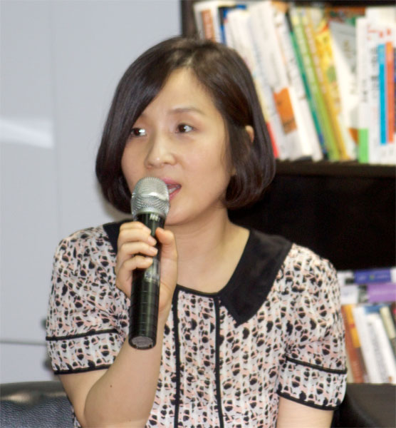 Jung I-hyun at SIBF 2014